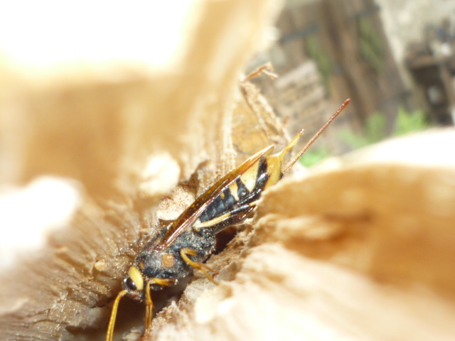 Woodwasp Urocerus gigas (Siricidae) in wood